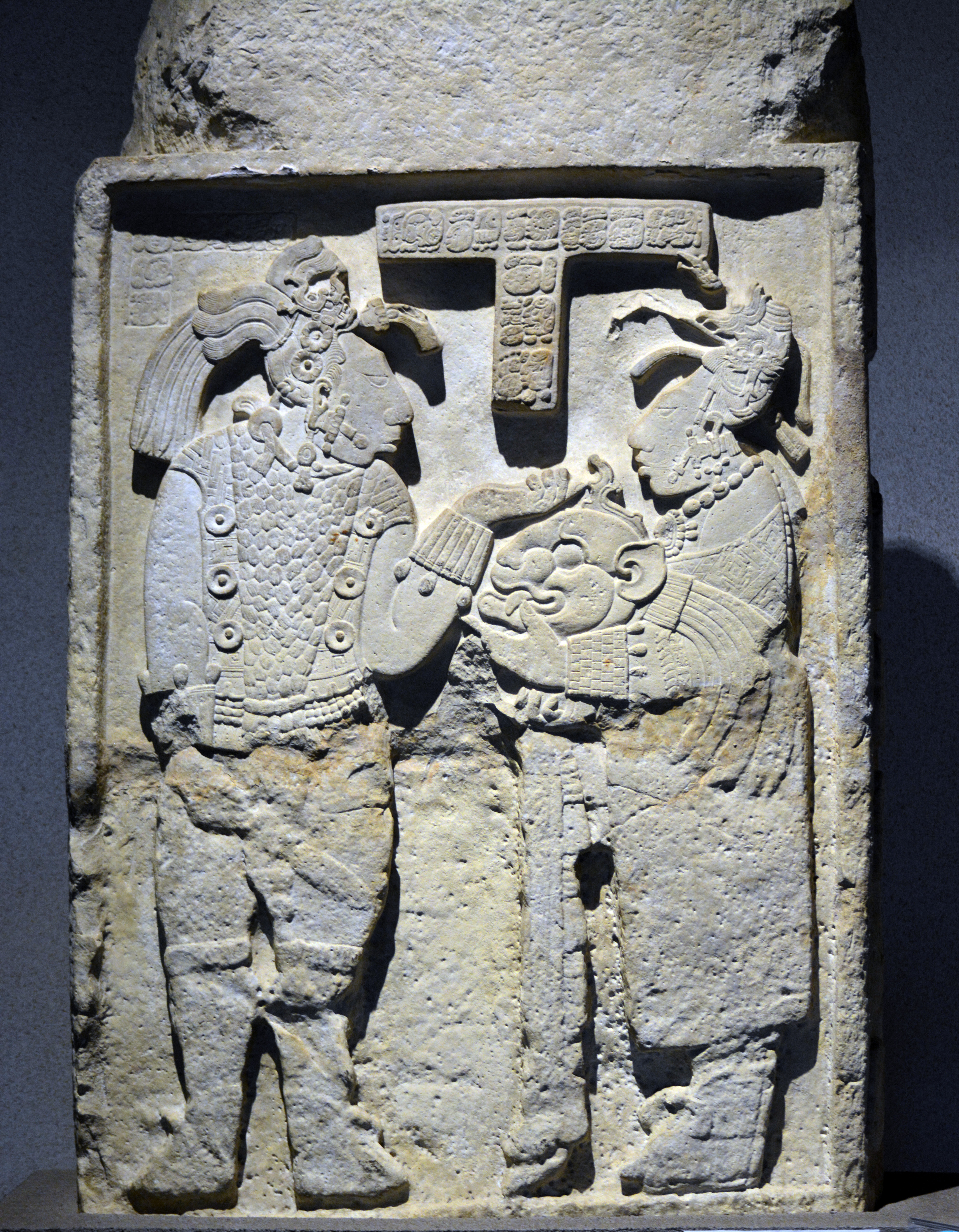 Mayan lintel that was part of Building 23 of the archaeological site of Yaxchilan, Chiapas. Shown left to Kokaaj B'ahlam III (Escudo Jaguar), ruler, and right his consort K'ab'al Xook.